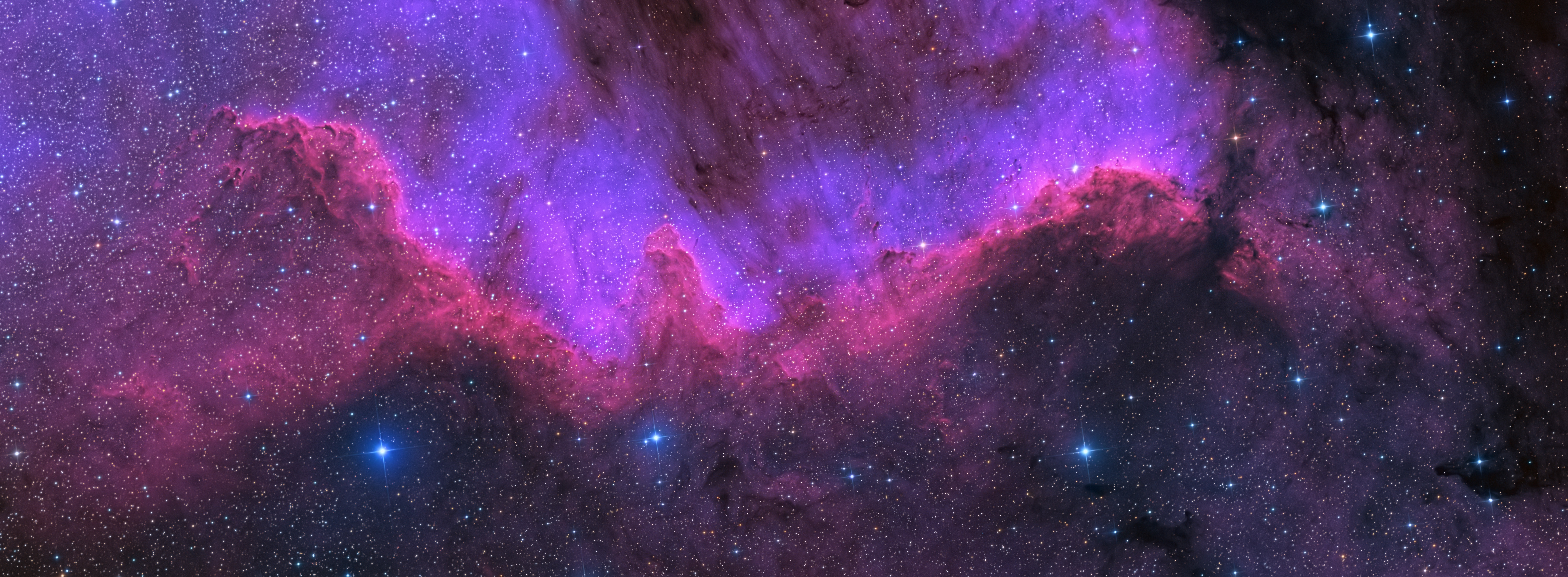 NGC7000 and The Cygnus Wall is part of the North American Nebula also known as Caldwell 20. This emission nebula is very large and this image shows the structures known as The Wall. The final picture required three panels stitched together from 7 different filters.